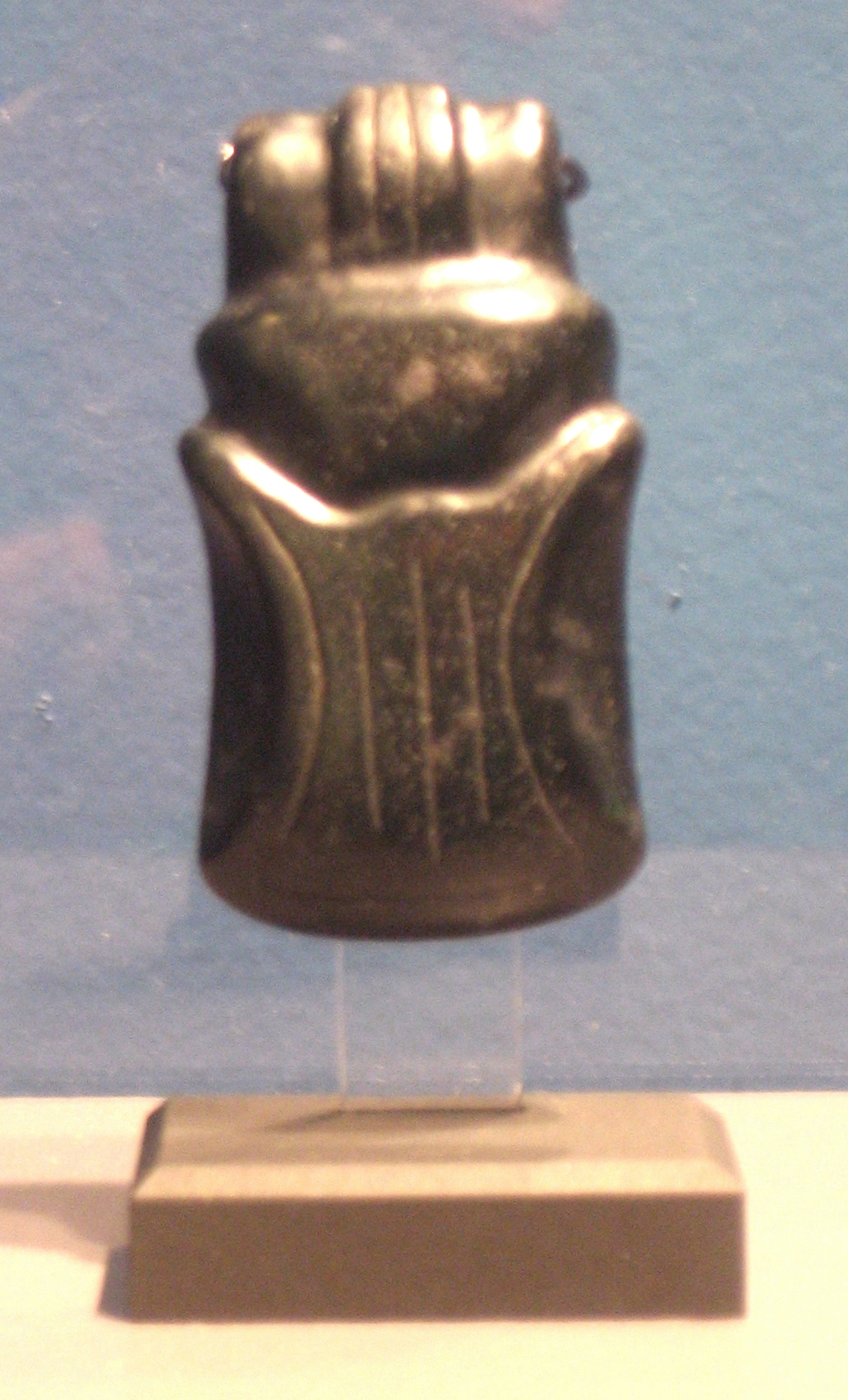 A "black jade" duckbill pendant from Veracruz/Tabasco, Mexico, dated 1000 - 300 BCE, on display at the Snite Museum of Art. According to the accompanying placard, "Ducks were closely associated with water and fertility among the Olmec and some human figural sculptures depict rulers wearing duckbills." See also Tuxtla Statuette